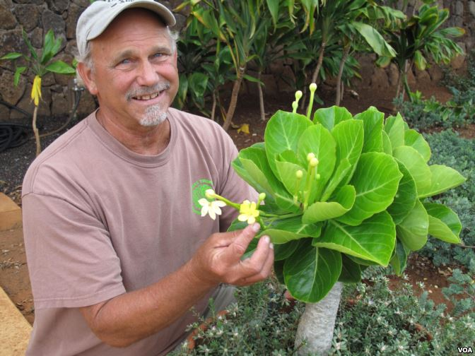 In the 1970s, Steve Perlman, seen here in the National Tropical Botanical Garden on the island of Kauai, was inspired to rappel off Kaua`i’s high cliffs to save this rare Hawaiian plant known as the Alula. (Heidi Chang/VOA)